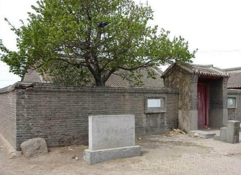 Willow Polisade Gate